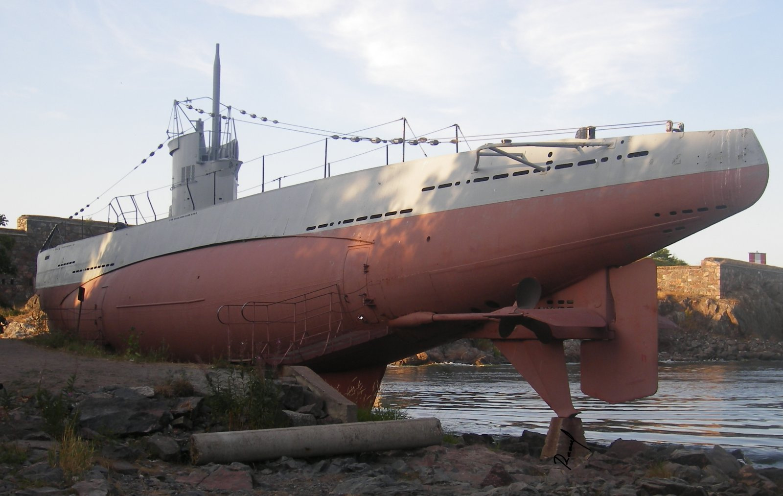 Stern/port view of the submarine Vesikko, taken by myself on August 5th 2006, Suomenlinna, Helsinki. (taken with Pentax Optio M10) - LL-Raoul 15:52, 24 August 2006 (UTC)